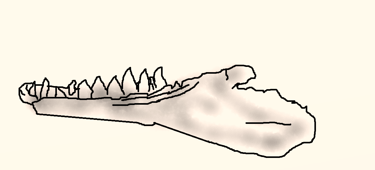 Tangaroasaurus jaw based on